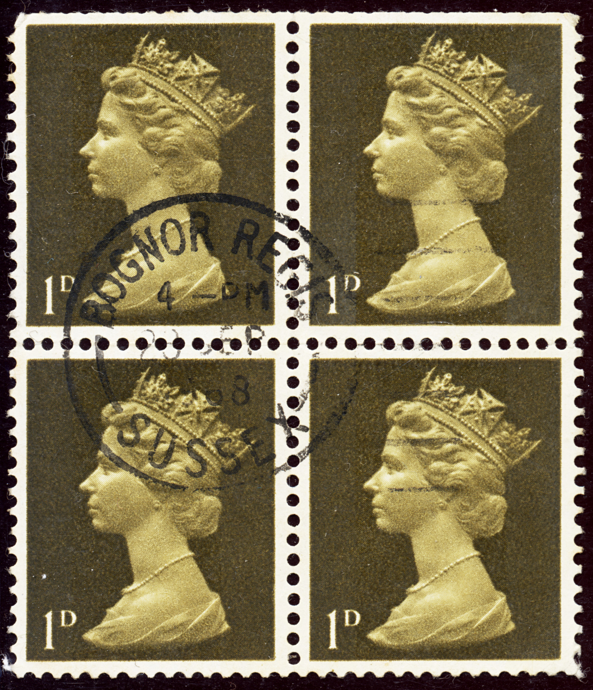 UK: Block of four 1D Machin stamps of the first issue (1967) cancelled with a round postmark "BOGNOR REGIS - SUSSEX" on 29 SEP 1968.